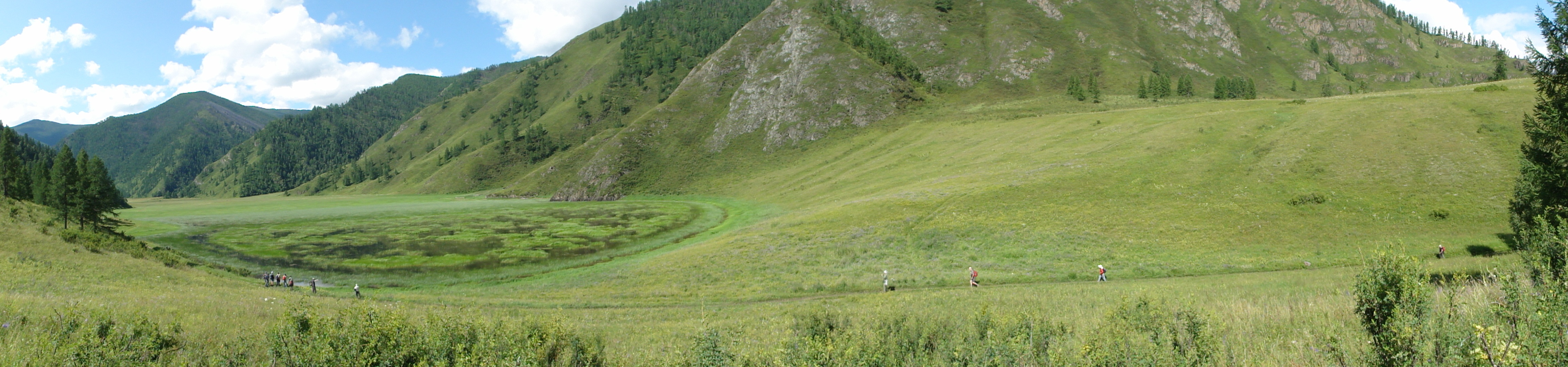 Lake (left) formed behind gravel bar (right) deposited during the Altay flood. The floodway along the Katun river is running behind the bar, parallel to it, and in the sense of this view.